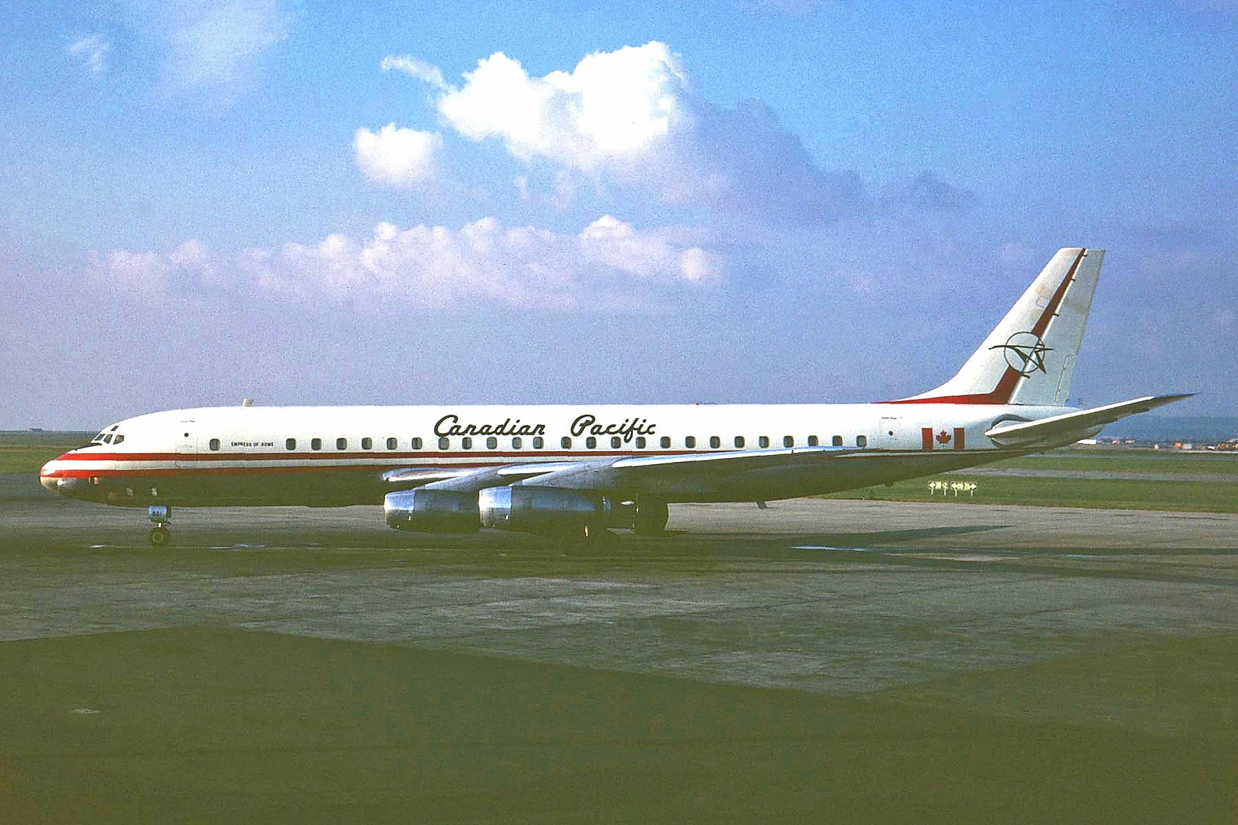 Canadian Pacific Airlines Douglas DC-8-43 (CF-CPF) at Vancouver International Airport.